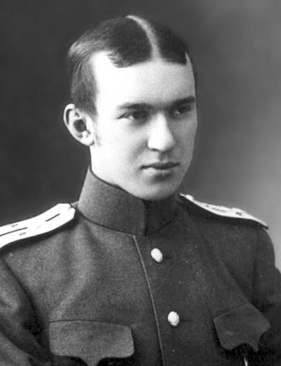 Dmitri Maksutov, a Russian / Soviet optician.